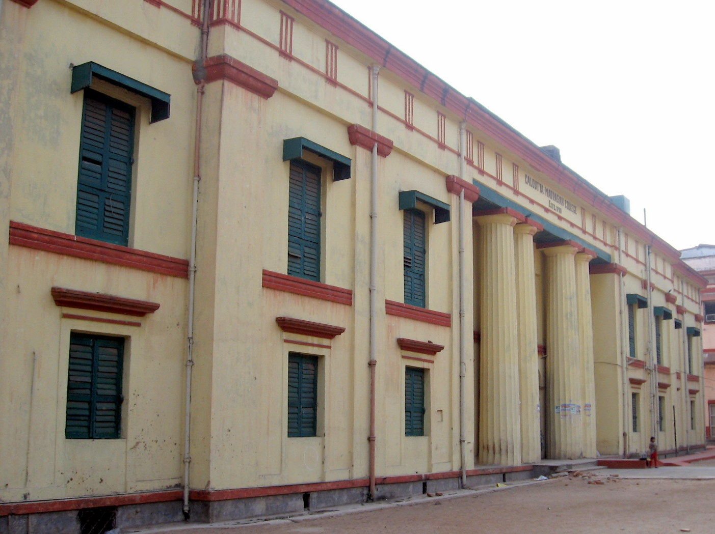 Calcutta Madrasah College founded in 1780